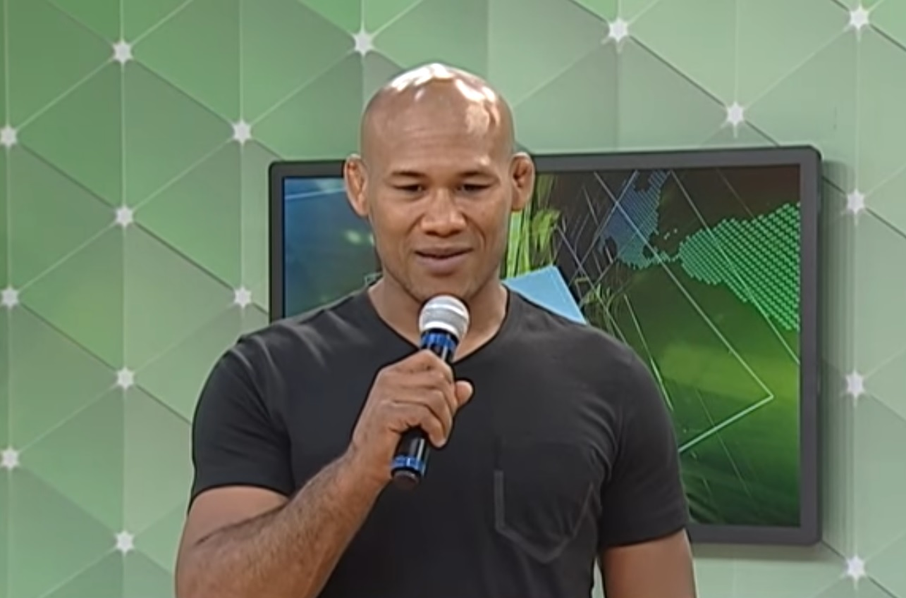 Brazilian mixed martial artist Ronaldo Jacare Souza.